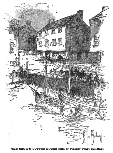 Crown Coffee-House, on Long Wharf, and at the end of State Street, Boston MA, ca.1740s-1790s.